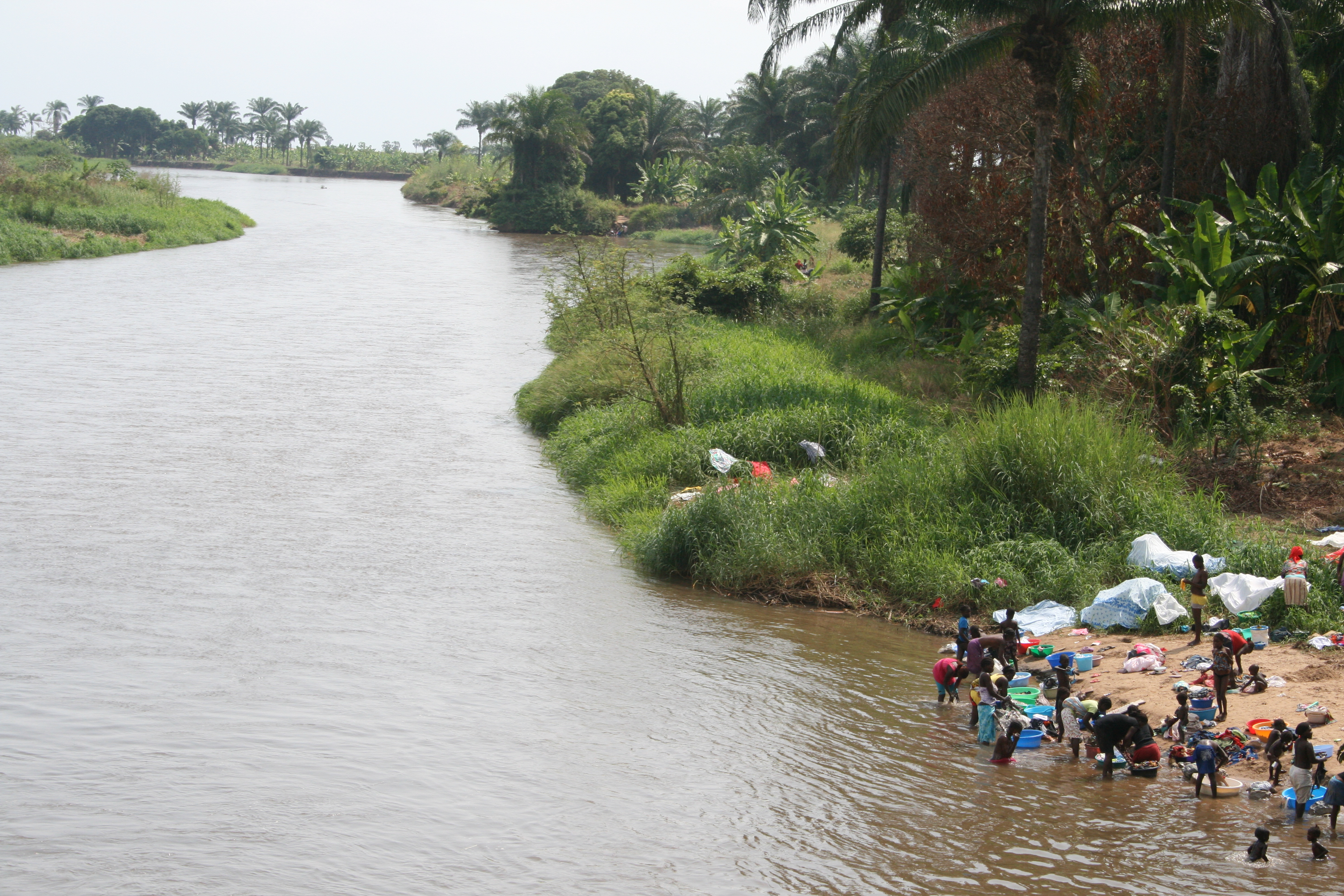 People washing clothes near a river in Angola